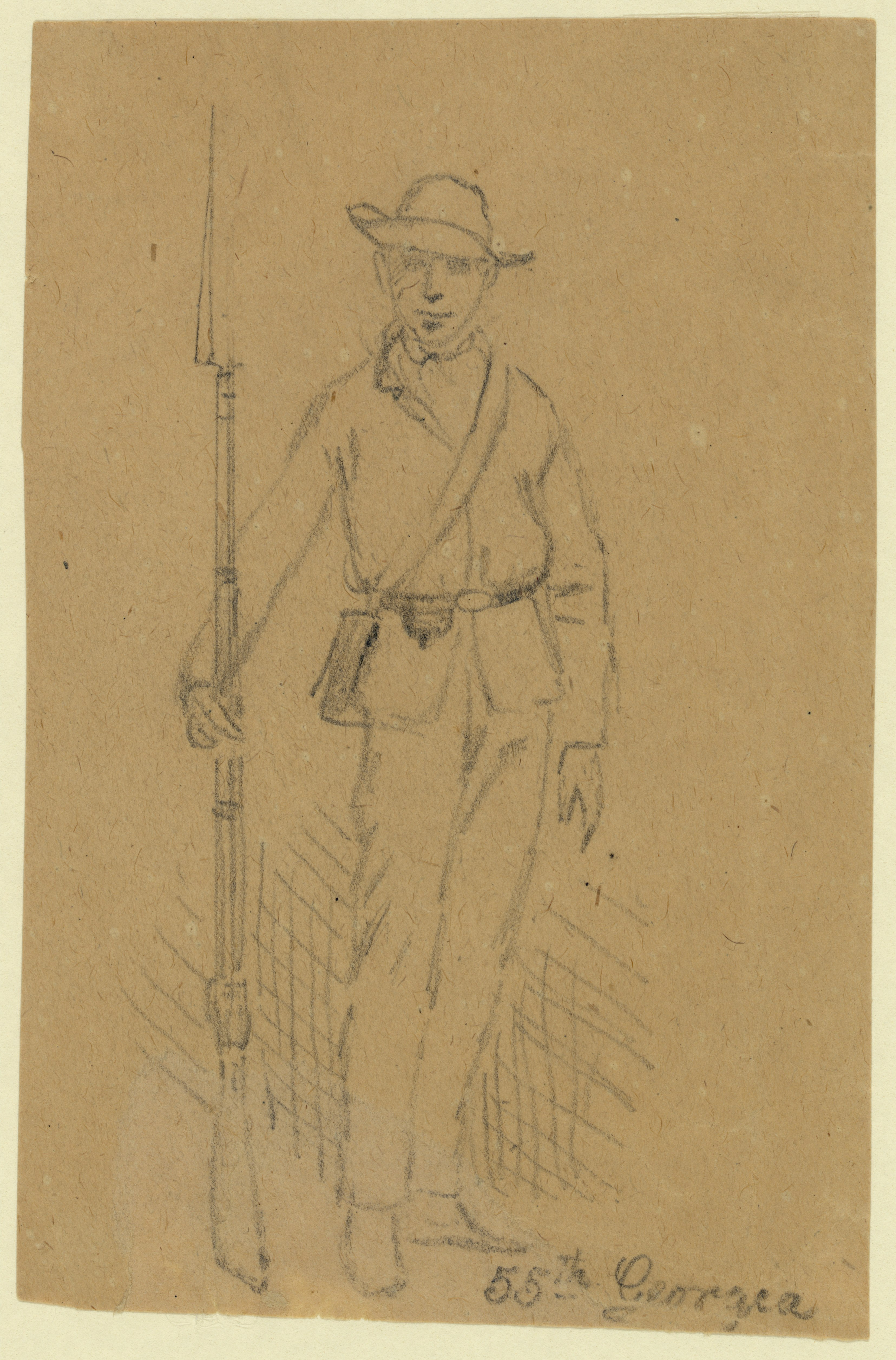 Title: 55th Georgia Abstract/medium: 1 drawing on tan paper : pencil ; 12.2 x 7.8 cm. (sheet)